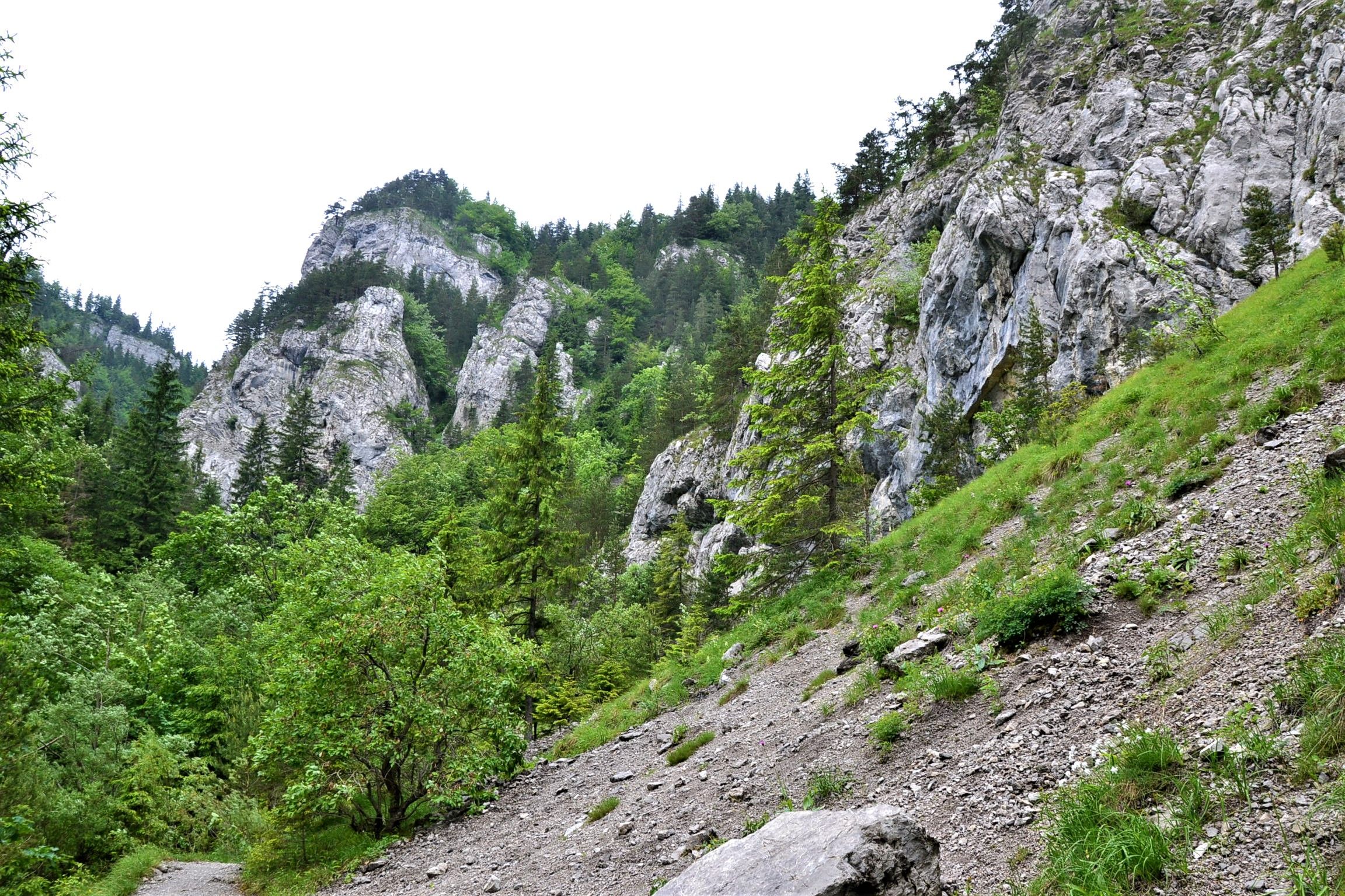 Červené piesky valley, branch of Prosiecka valley, Chočské vrchy, Slovakia